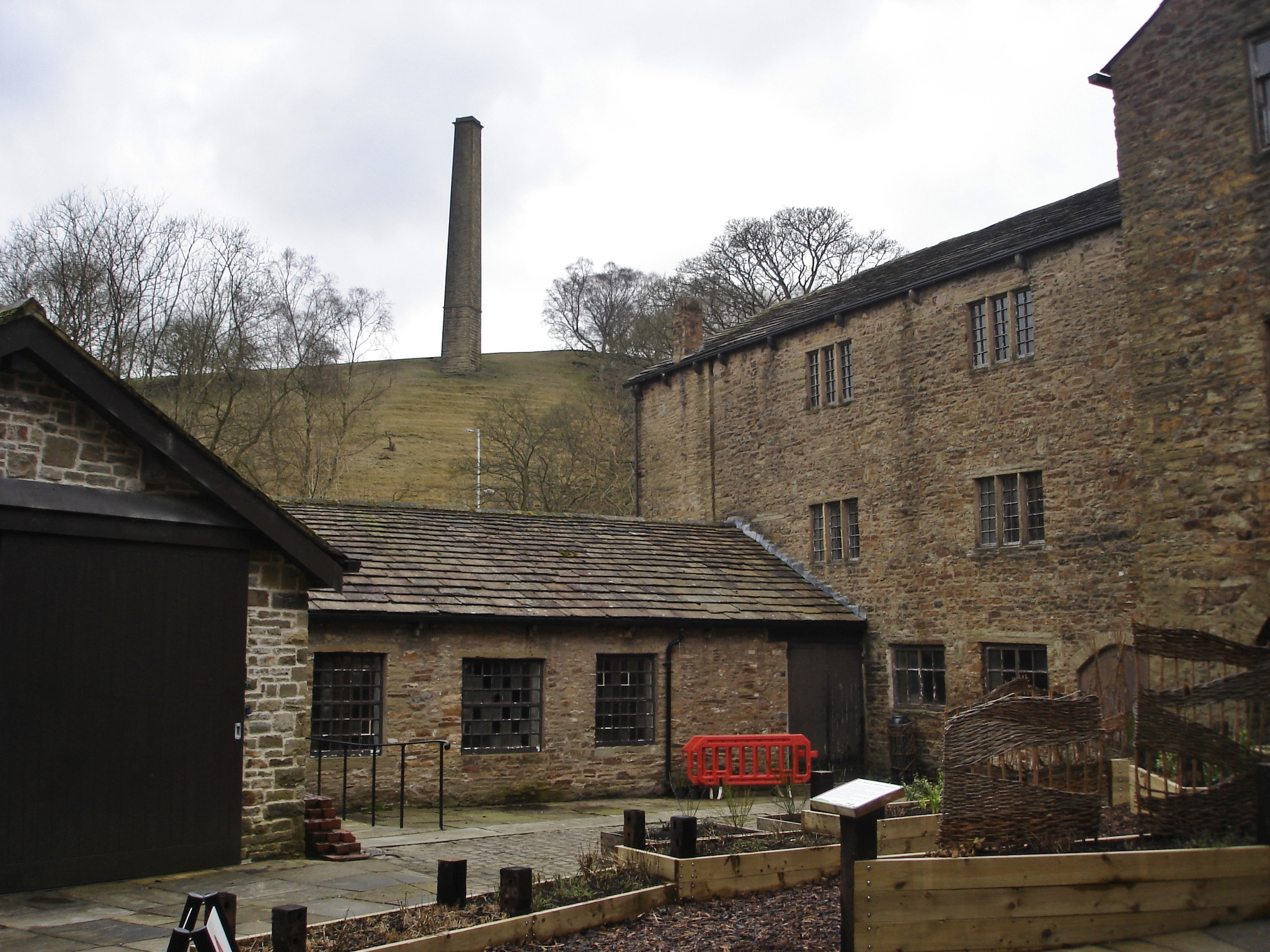 Higher Mill , Helmshore showing the remote chimney stack on a nearby hill.